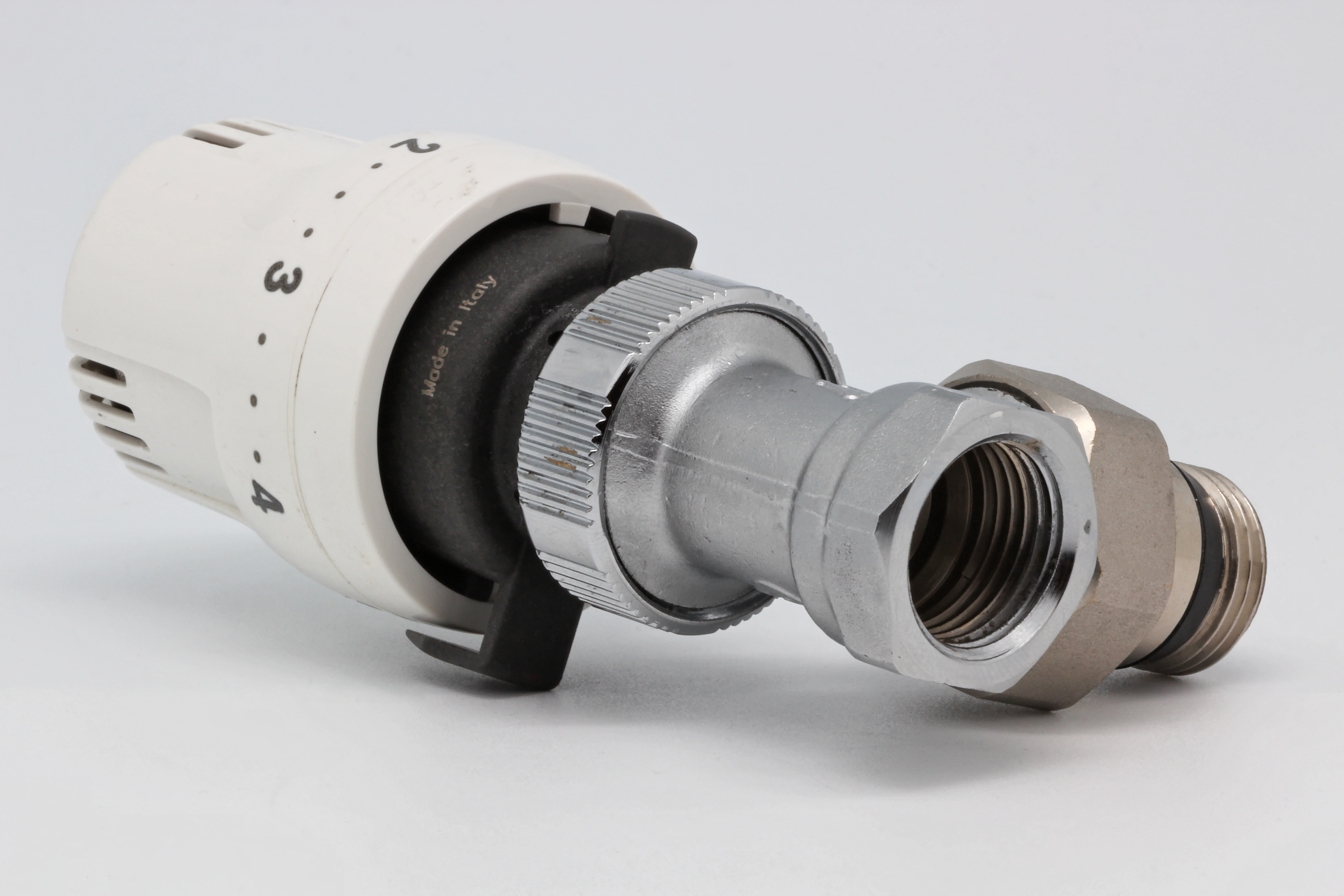 Thermostatic radiator valve